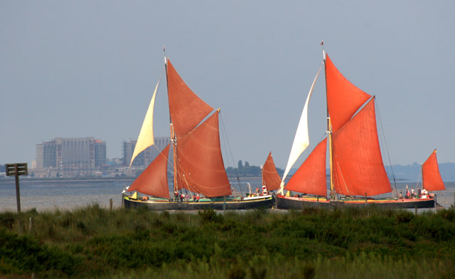 Barge Race These two Thames Barges were taking part in a race, the Colne Barge Match. They were just passing Colne Point. The Barge in the front is called Pudge and the one behind is called Repertor. The old Nuclear Power Station at Bradwell can be seen behind them.